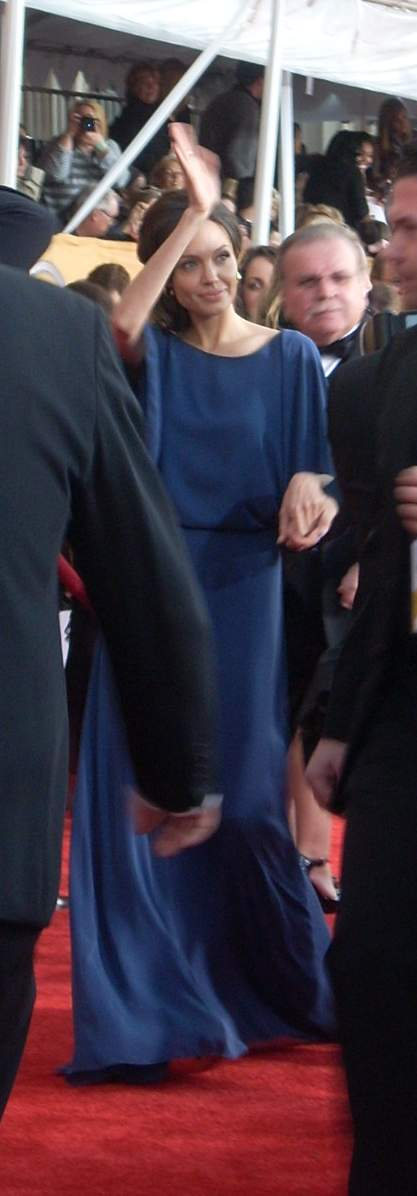 Actress Angelina Jolie, nominated for "Changeling" at the 15th Screen Actors Guild Awards